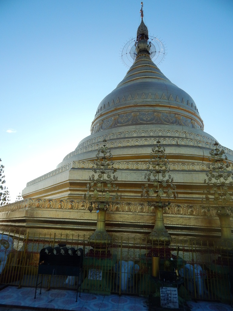 Tuywindaung Pagoda, Bagan